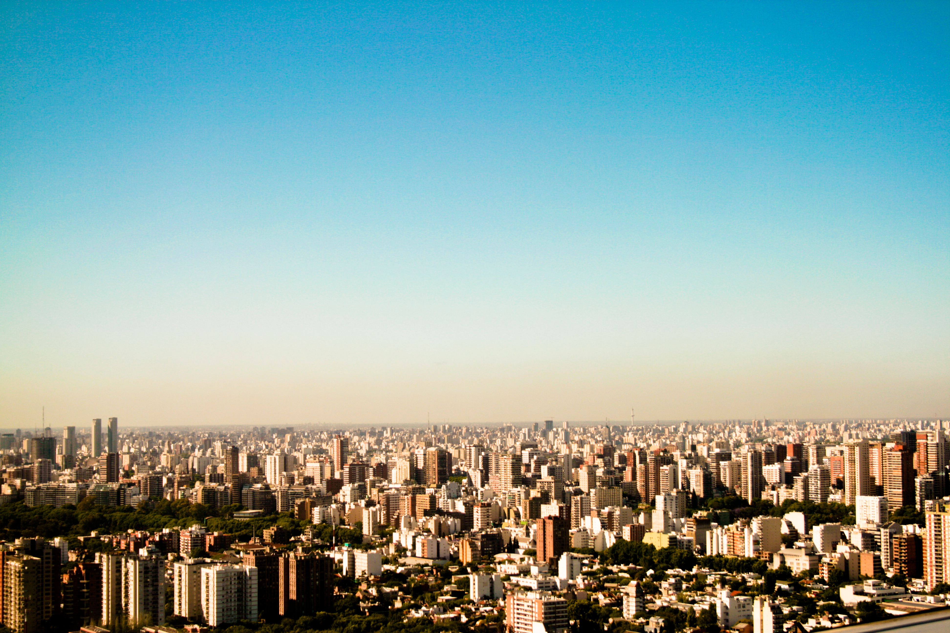 Aerial view of the Belgrano section of Buenos Aires, Argentina.